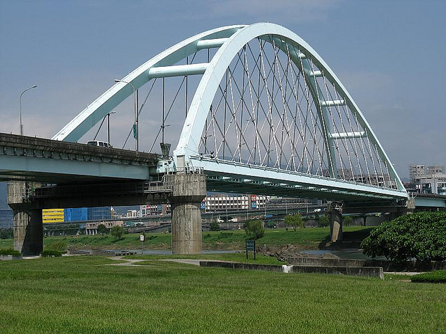 The MacArthur Bridges in Tapei, Taiwan 麥帥二橋 Camera: Canon PowerShot A720 IS License on Flickr (2011-01-27): CC-BY-2.0